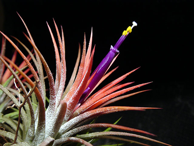 Tillandsia ionantha